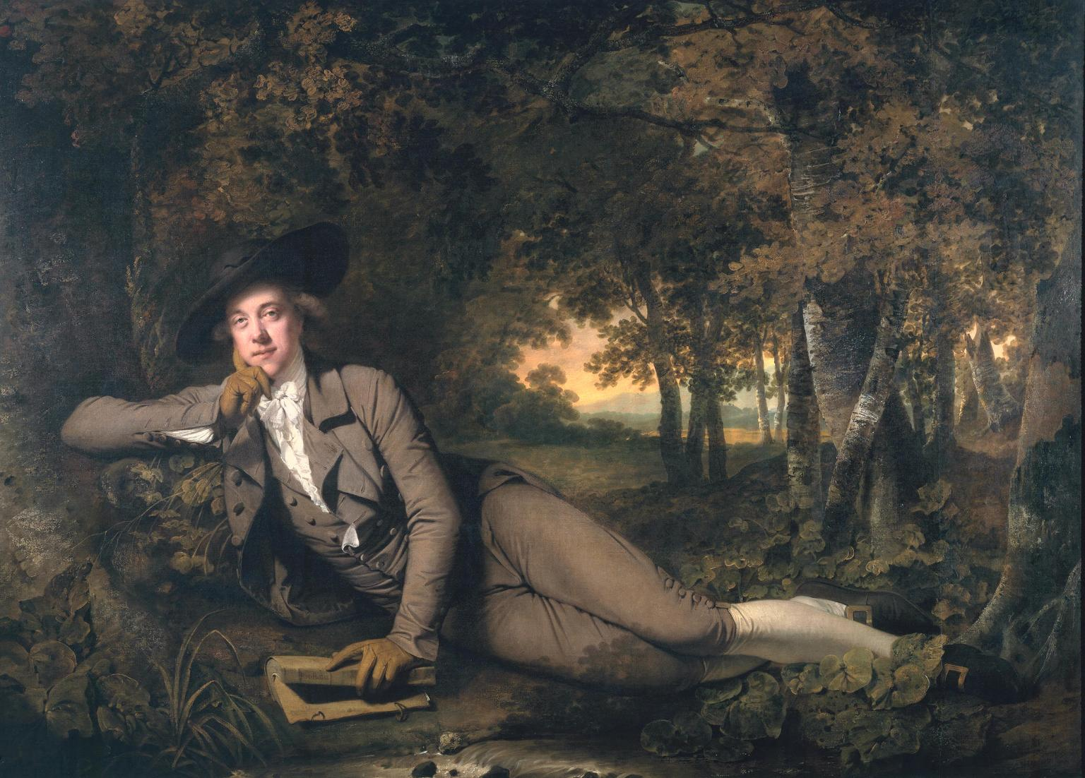 Sir Brooke Boothby, 6th Baronet. Sir Brooke Boothby was a minor poet and landowner in Derbyshire. He was part of the many people in the intellectual circles of Lichfield who welcomed Jean-Jacques Rousseau to England in 1766-7. After his return from exile Boothby visited Rousseau in Paris where he obtained a copy of his autobiography. Boothby was instrumental in the book being published in Lichfield in 1780 after the authors death. Many well-off people had their portraits rendered by Joseph Wright of Derby and Boothby's unusual portrait shows a copy of that book.